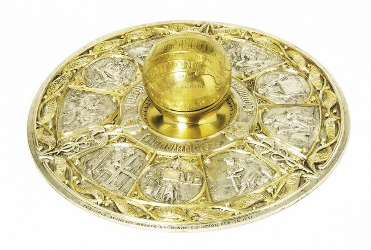 Commemorative inkstand, about 1850, Elkington & Co. V&A Museum no. 481&A-1901 Techniques - Gilt and silvered bronze, with glass lining Place - Birmingham, England Dimensions - Height 8 cm, Diameter 23.4 cm Object Type - This inkstand was probably designed as a souvenir of the Great Exhibition of 1851. The foot of the object is divided into compartments showing images linking raw materials, business and retailing with manufactures and art products. For example 'Manufactures' shows a weaver, a designer and a potter at work. Named designers in the ribbon around the edge of the foot reinforce the links to art and design, while the globe containing the inkwell adds the international dimension that the Great Exhibition was the first to exploit. People - The inkstand was designed by the designer and illustrator John Leighton (1822-1912), who worked under the pseudonym Luke Limner. The inkstand's design originally appeared as a metal plaque on the cover of the Art Journal catalogue of the Great Exhibition. Leighton designed stained glass, ceramics and bookbindings as well as serving on the jury of the Paris Exhibition of 1878. The inkstand was made by Elkington & Co., the largest and most ambitious silversmiths in the 19th century. Historical Associations - The inkstand commemorates the Great Exhibition of 1851 and was made by Elkington and Co., who won a coveted Council medal for the ingenious use of electricity to create works of art. The inkstand was gilded by an electric current.